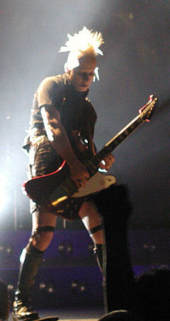 Ver Sacrum concert review at